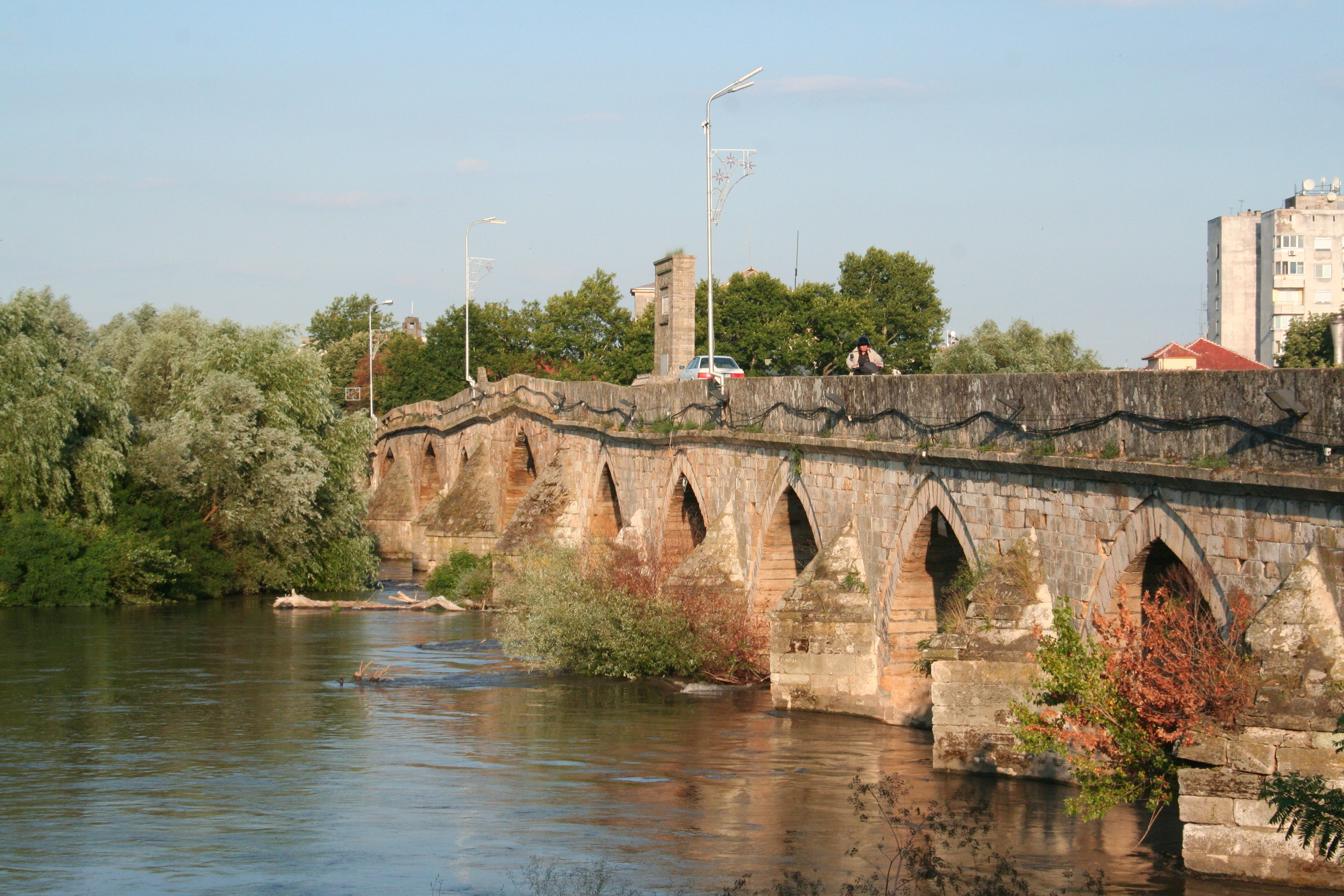 Mustafa Pasha Bridge, Svilengrad